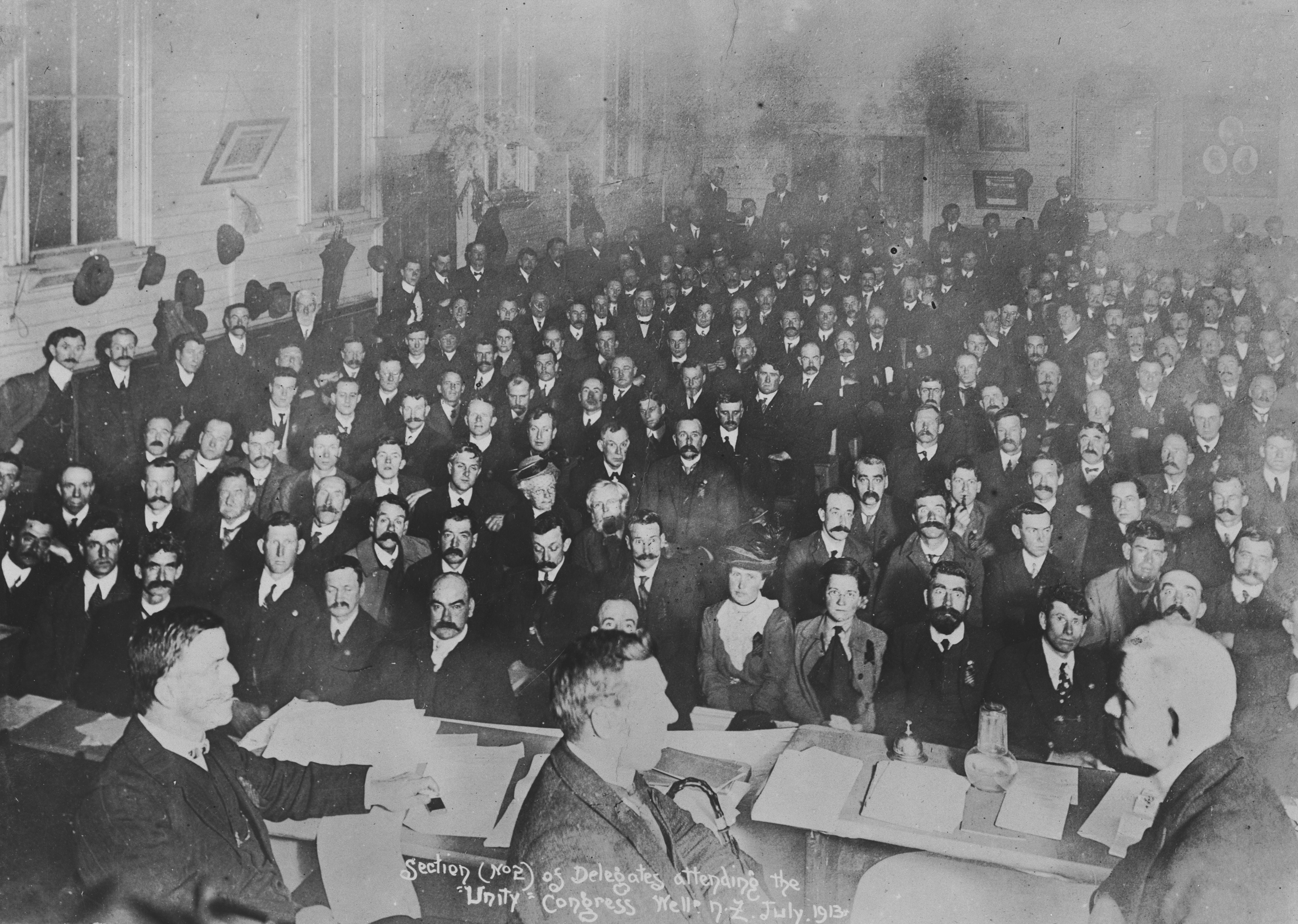 Delegates attending the Labour Unity Congress in Wellington, July 1913.